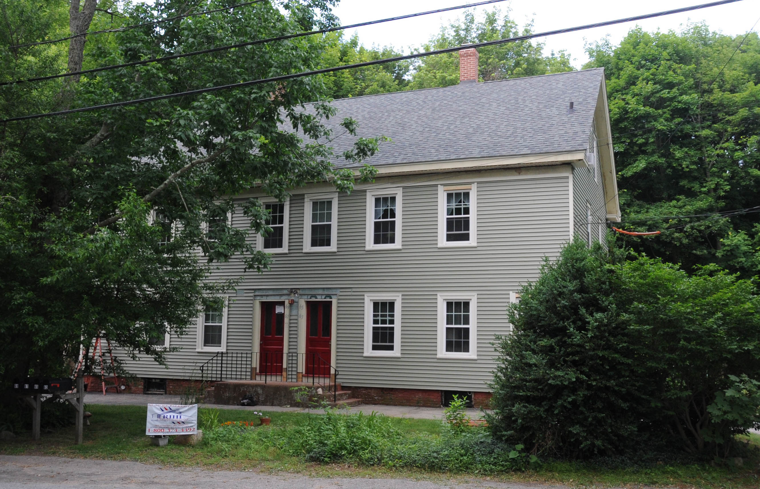 MILL WORKERS RESIDENTIAL HOUSING FROM THE 19TH CENTURY. THIS EXAMPLE IS A MULTIFAMILY RESIDENCE ON N63-69 SHADY LEA ROAD